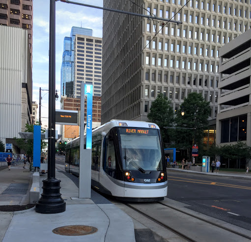 Streetcar departing Library stop